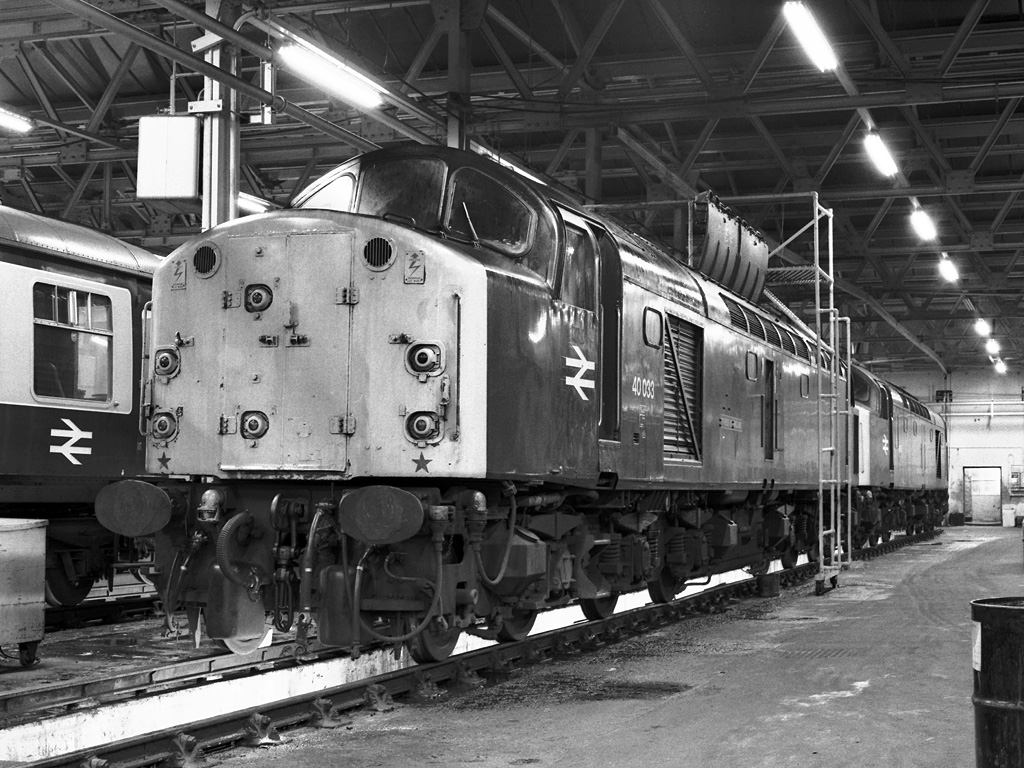 British Railways English Electric Type 4 1Co-Co1 class 40 diesel-electric locomotive number 40033 with 40196 behind stand inside the South Shed of their home depot of Longsight Diesel TMD, Manchester. Saturday 10th March 1984